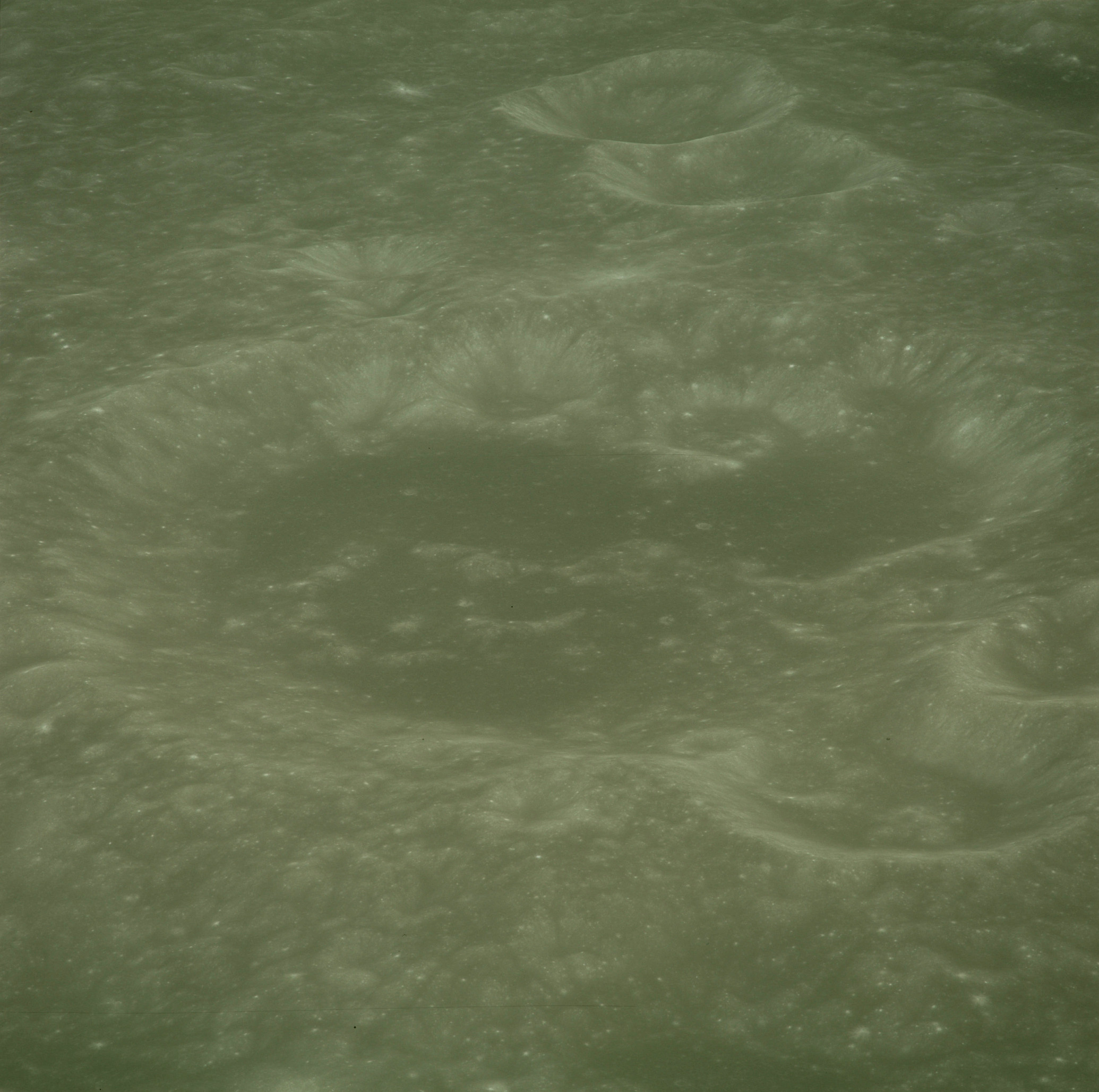 Oblique view of Apollonius crater, on the moon, from Apollo 10. Brightness and contrast adjusted from original for clarity.